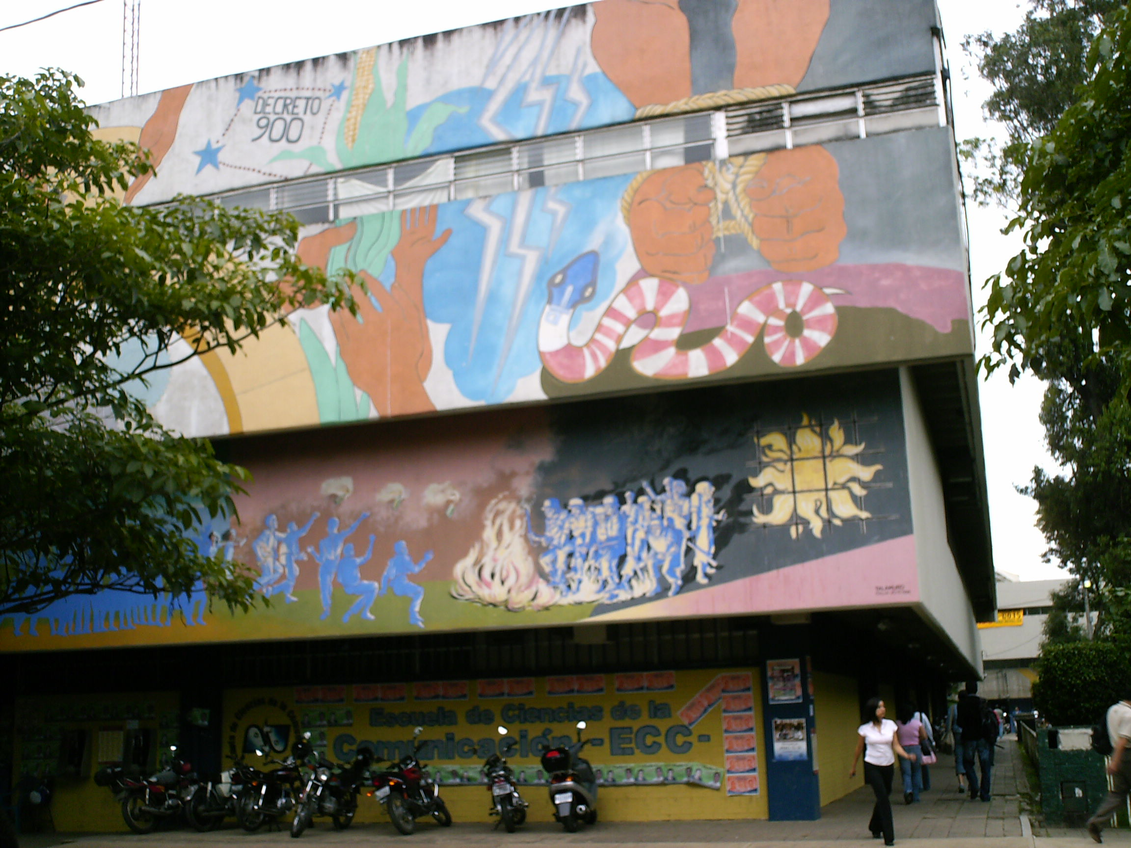 This is a shot of the main entrance to the student services/communications building.